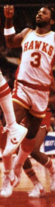 "Fast Eddie" Johnson in 1981.